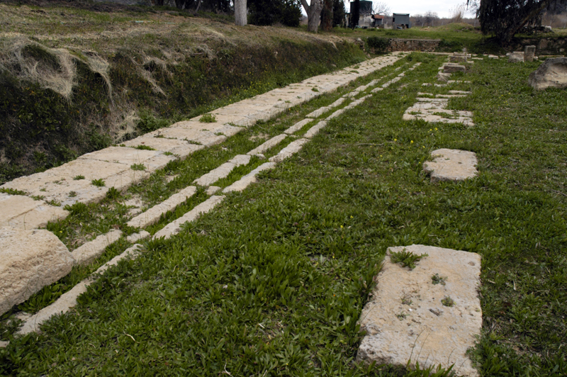 J. Matthew Harrington, personal digital image